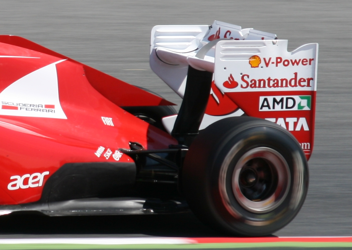 Ferrari illegal rear wing. Friday, 2011 Spanish Grand Prix